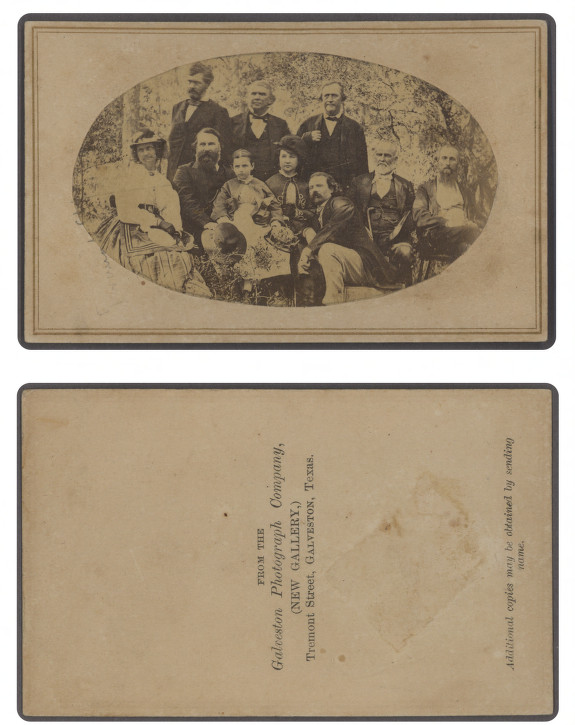 Title: [Major Richard William Dowling, General James Longstreet, and Unidentified Veterans and Persons, Confederate States Army] Creator: Galveston Photograph Company, (New Gallery) Date: ca. 1860s Part Of: Lawrence T. Jones III Texas photography collection Physical Description: 1 photographic print on carte de visite mount; 10 x 6 cm. File: ag2008_0005_2_1_020_c_longstreetgroup_opt.tif Rights: Please cite DeGolyer Library, Southern Methodist University when using this file. A high-resolution version of this file may be obtained for a fee. For details see the web page. For other information, . For more information, View Lawrence T. Jones III Texas Photographs